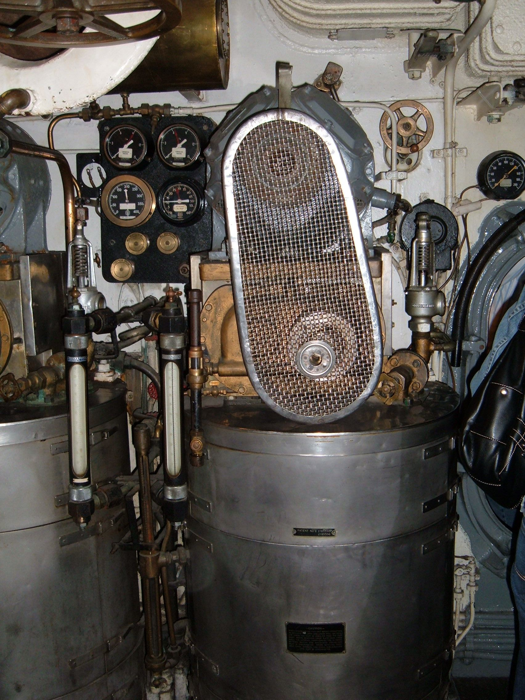 One of two fresh water evaporators located in the forward engine room of the USS Pampanito (SS-383), berthed at Fisherman's Wharf in San Francisco.